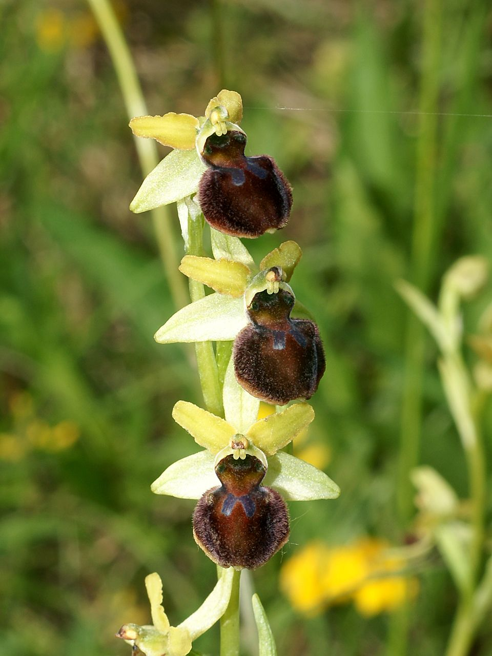 Ophrys sphegodes